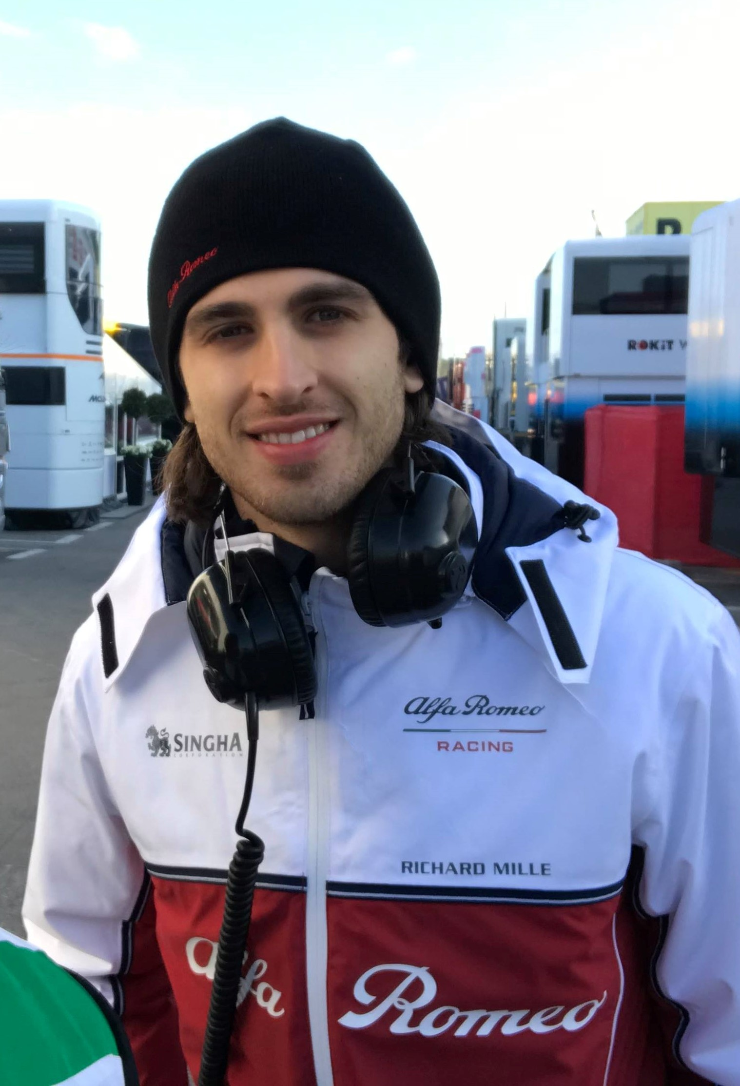 Italian racing driver Antonio Giovinazzi of Alfa Romeo Racing at 2019 Formula One tests in Barcelona.